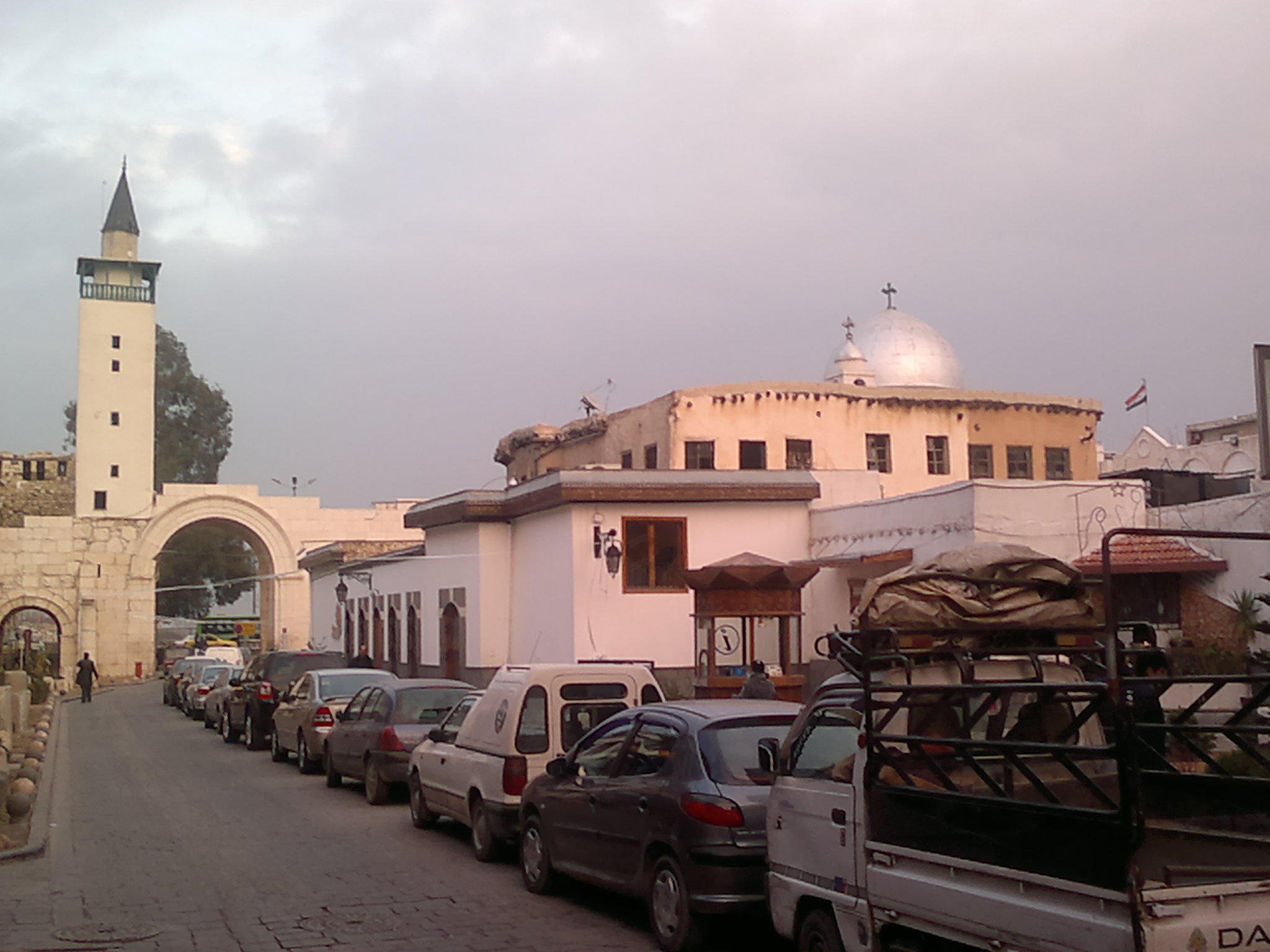 Bab Sharki at Old Damascus, Syria.